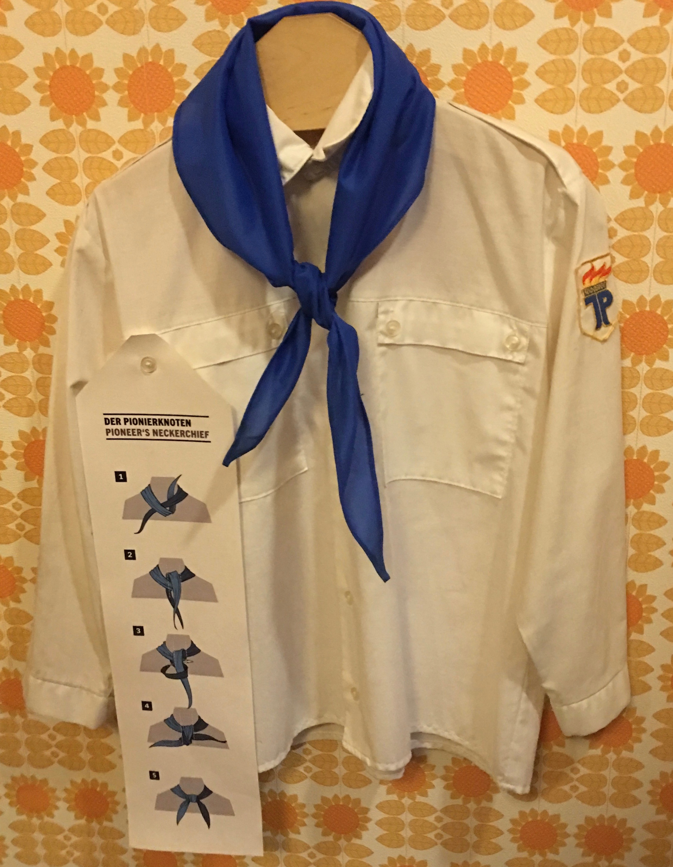 Young Pioneer's neckerchief (Pionierknoten und Pionierhemd) DDR-Museum in Berlin 2016